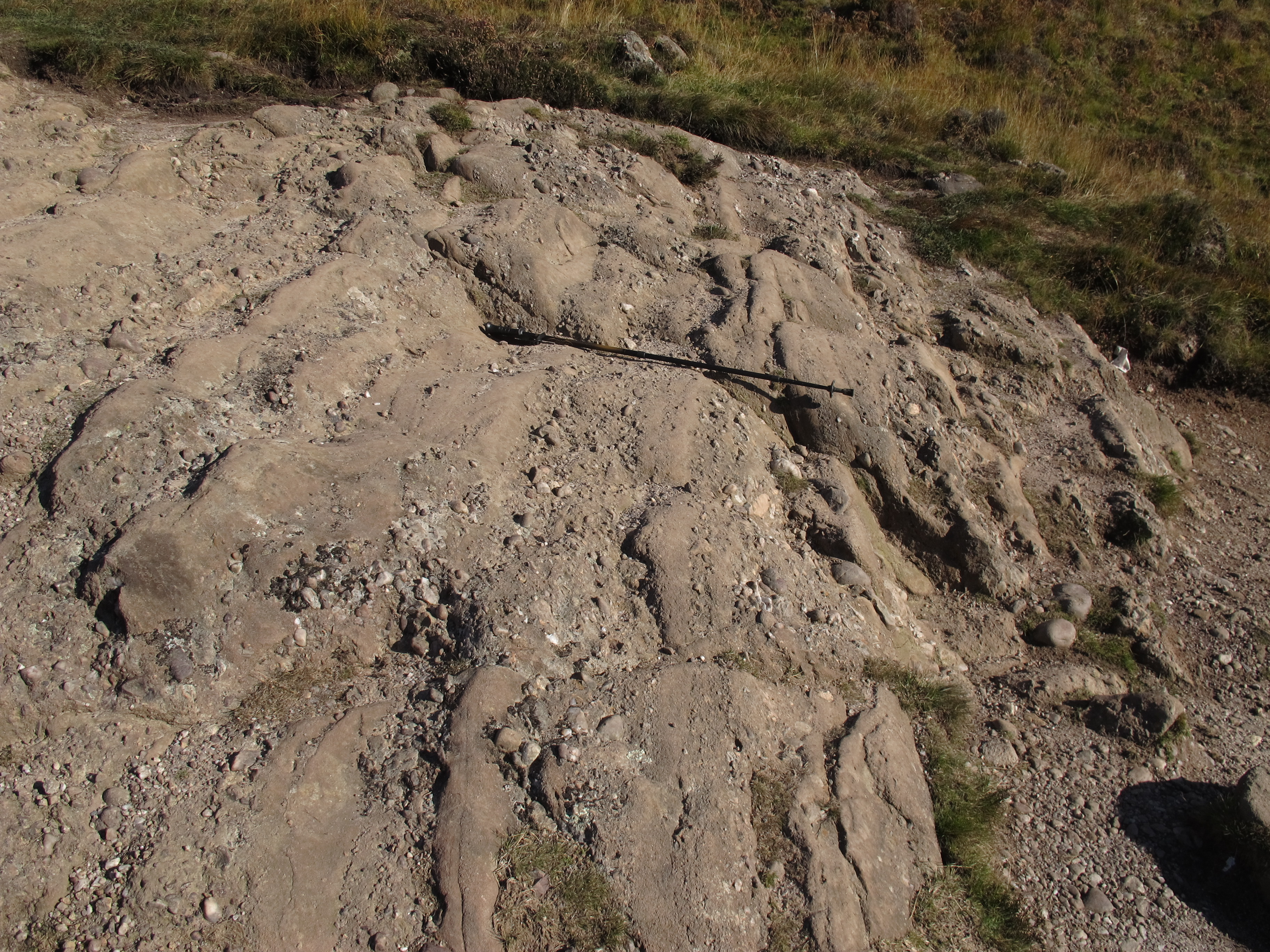 Lower Devonian sandstones and conglomerates of the Inchmurrin Conglomerate Member of the Ruchill Flagstone Formation dipping steeply to the southeast, exposed along the path through Bealach Ard near Balmaha - walking pole about 1.2 m for scale